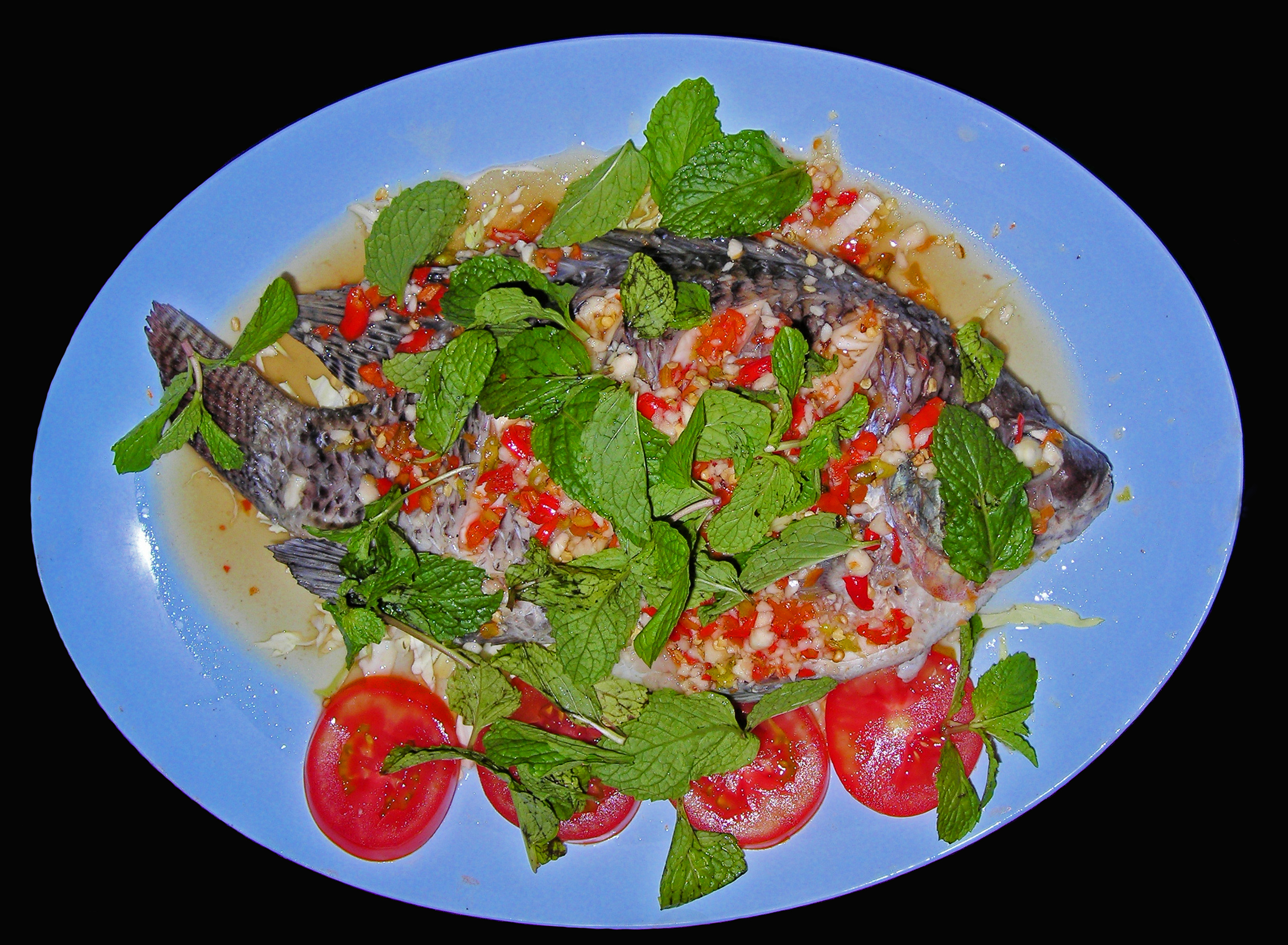 Pla nueng manao (Thai: ปลานึ่งมะนาว): Fish steamed with lime juice. The fish is pla nin (Thai: ปลานิล, Oreochromis niloticus) so this dish would in full be called pla nin nueng manao (Thai: ปลานิลนึ่งมะนาว). Most recipes call for the fish to be steamed plain and then smothered in a dressing of chopped garlic, chillies, lime juice, fish sauce and chicken stock. The spearmint (bai saranae, Thai: ใบสะระแหน่, Mentha spicata) is used to cover up the somewhat strong smell of this particular fish but it is more common to see this dish served with coriander/cilantro leaves (phak chi, Thai: ผักชี) instead of mint.